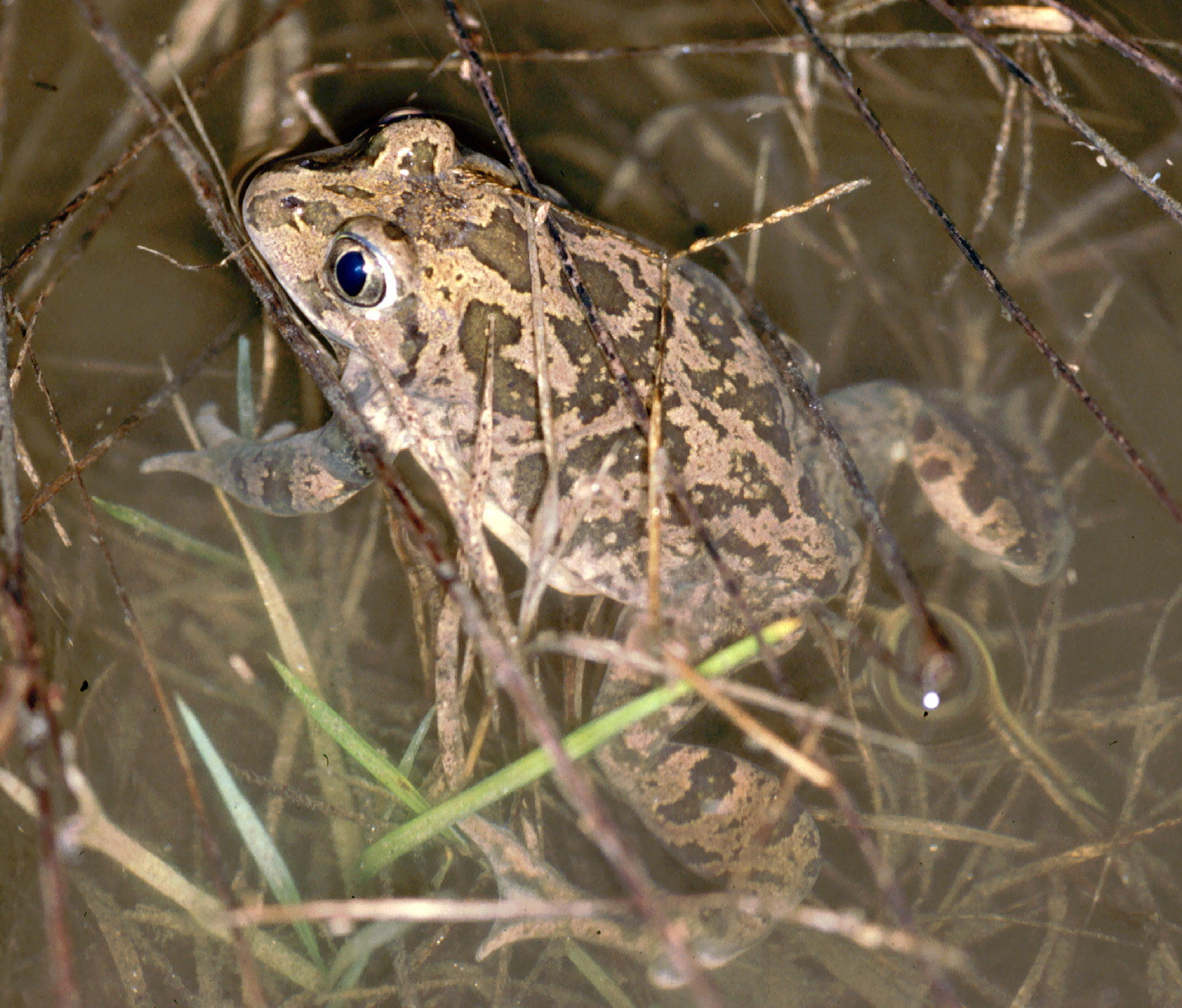 Calling male of Pelobates syriacus on the northeast shore of Lake Dojran (Macedonia, Greece).